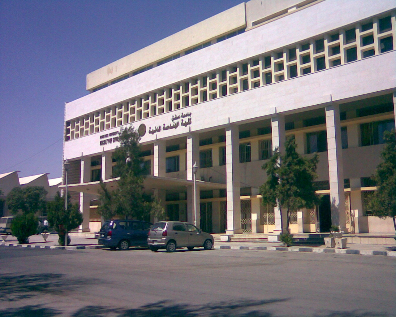 Damascus University, faculty of civil engineering